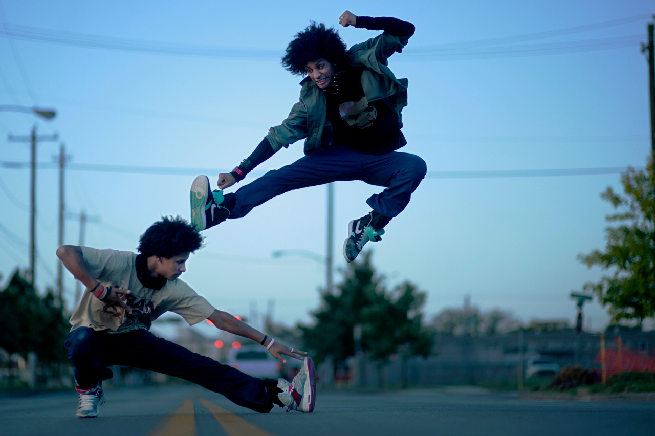 Les Twins during a shoot with photographer Shawn Welling.